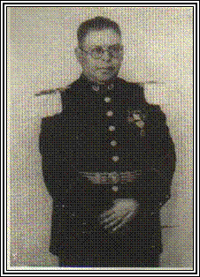 Adrian Patino Carpio (La Paz, Bolivia, February 19, 1895 - La Paz, Bolivia, April 4, 1951) was a prominent military, bandleader and composer of Bolivian music.Inuktitut: Adrian Patiño, militar, musico, compositor